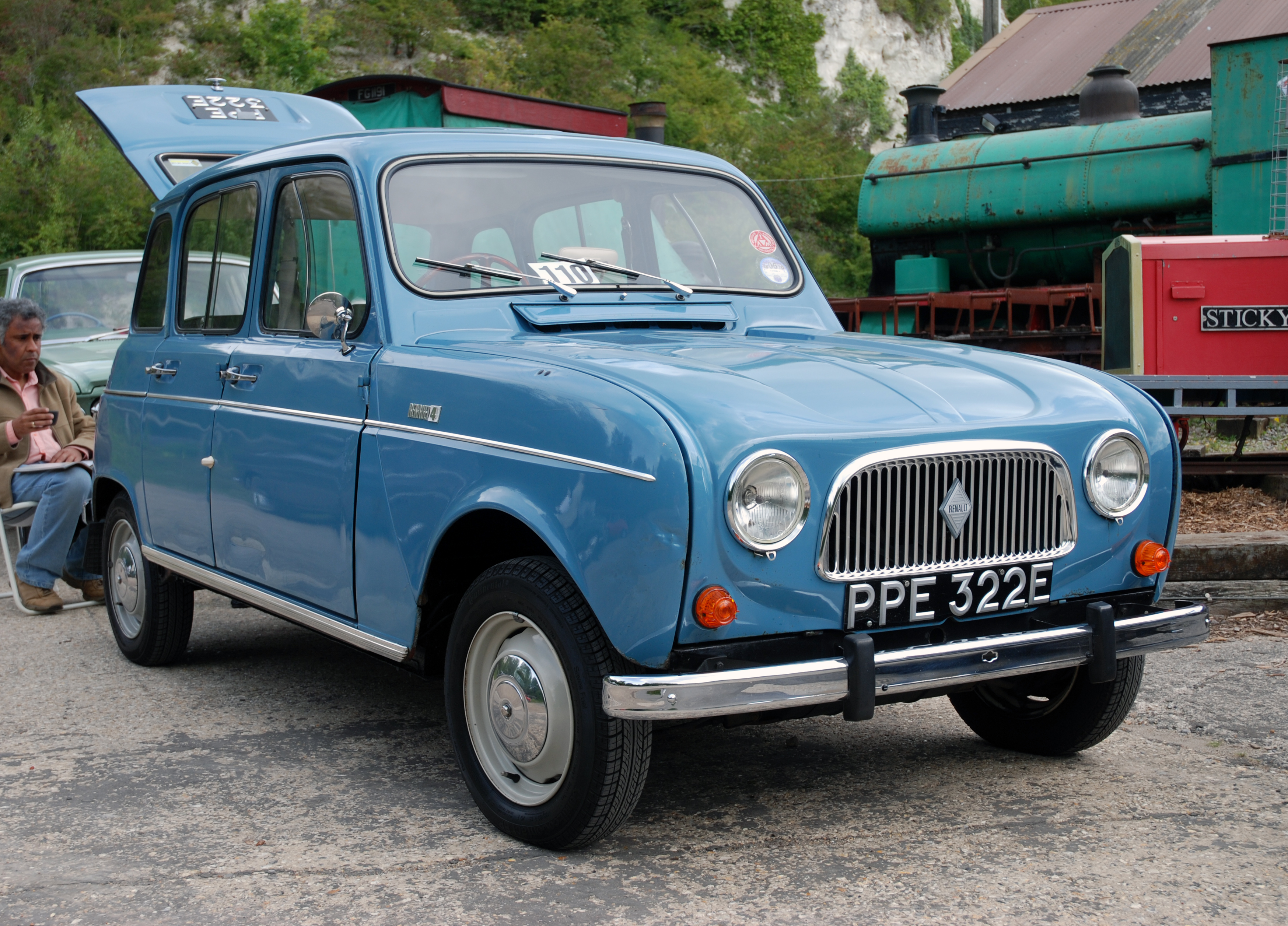 Amberley Working Museum,July 2009